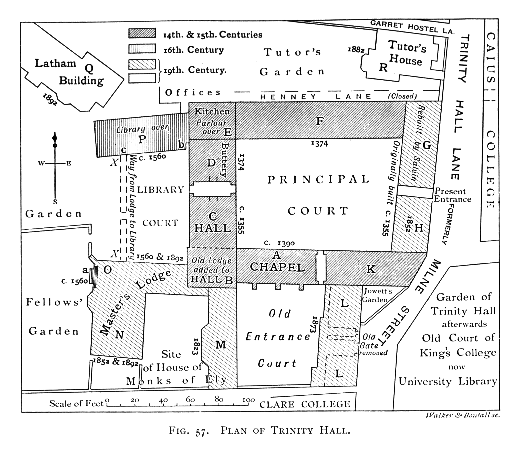 Plan showing the historical architectural development of King's College, Cambridge